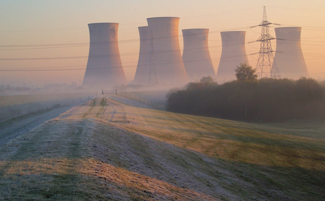 Embankment with cooling towers.